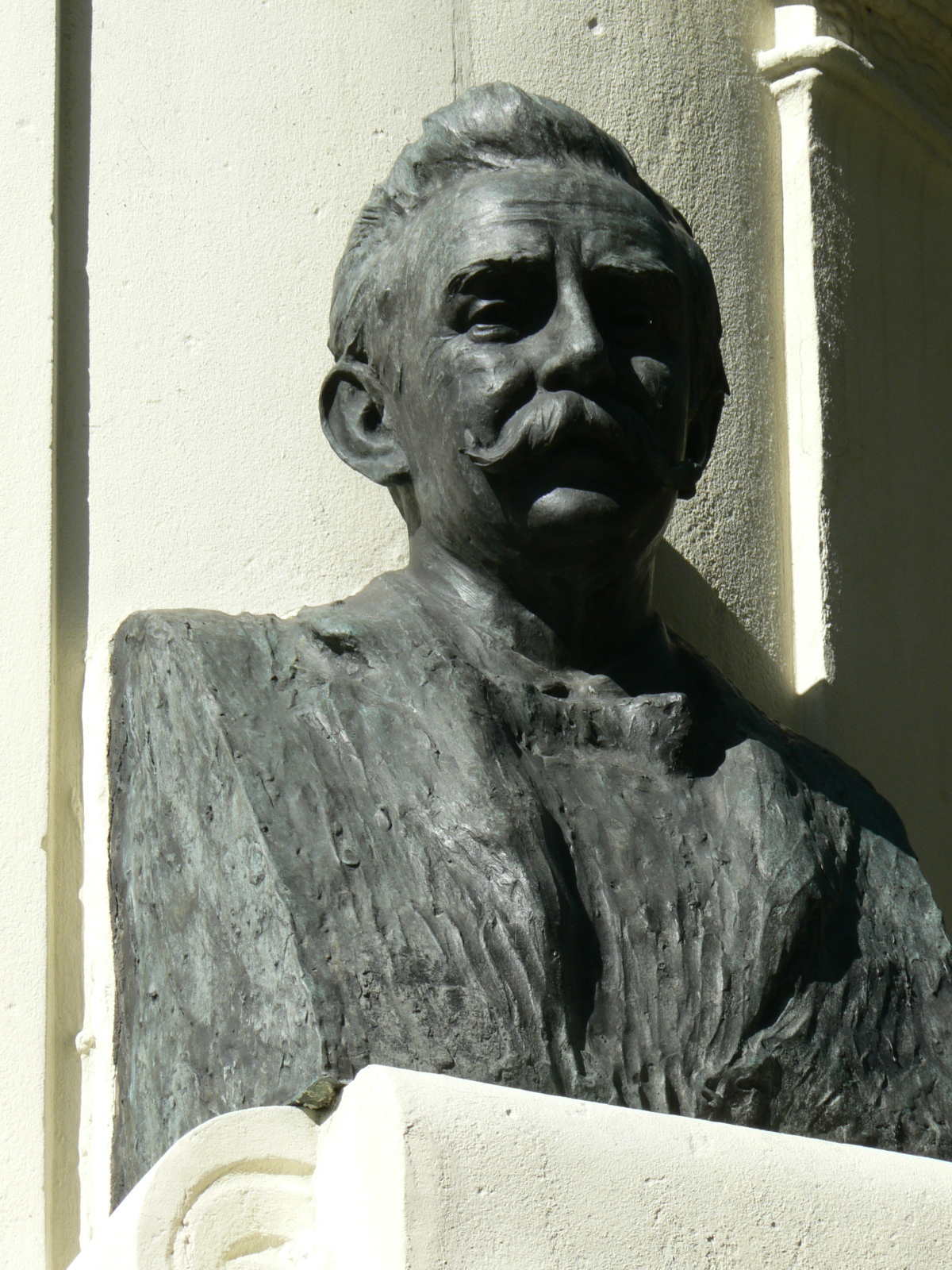 Bronze bust of Federico Chueca (1846–1908). Detail of the Monument to the Madrilenian Sainete Writers at Calle de Luchana (street) in Madrid (Spain), made by sculptor Lorenzo Coullaut Valera and inaugurated on June 25, 1913.